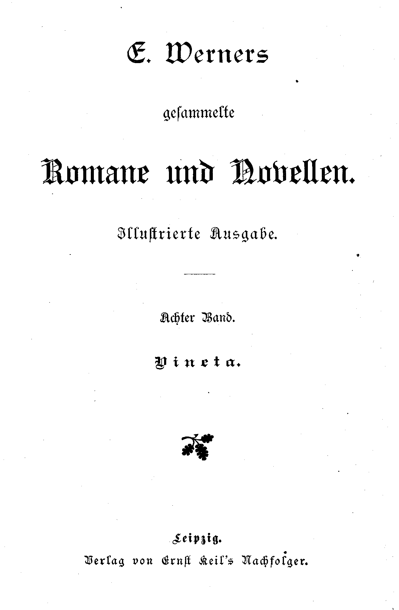 This is a scan of a historical book.